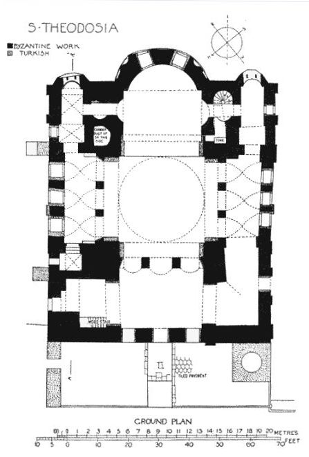 The ground floor of the gül Mosque in Istanbul, after Van Millingen (1912)